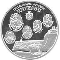 Coin of Ukraine